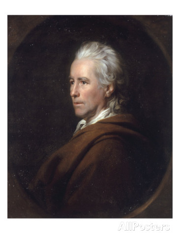 Portrait Anthony Morris Storer (1746–1799), English politician.